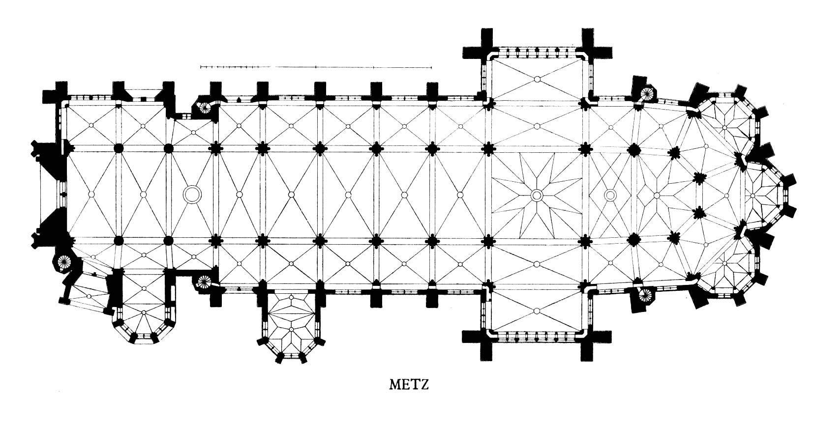 Floorplan of Metz Cathedral